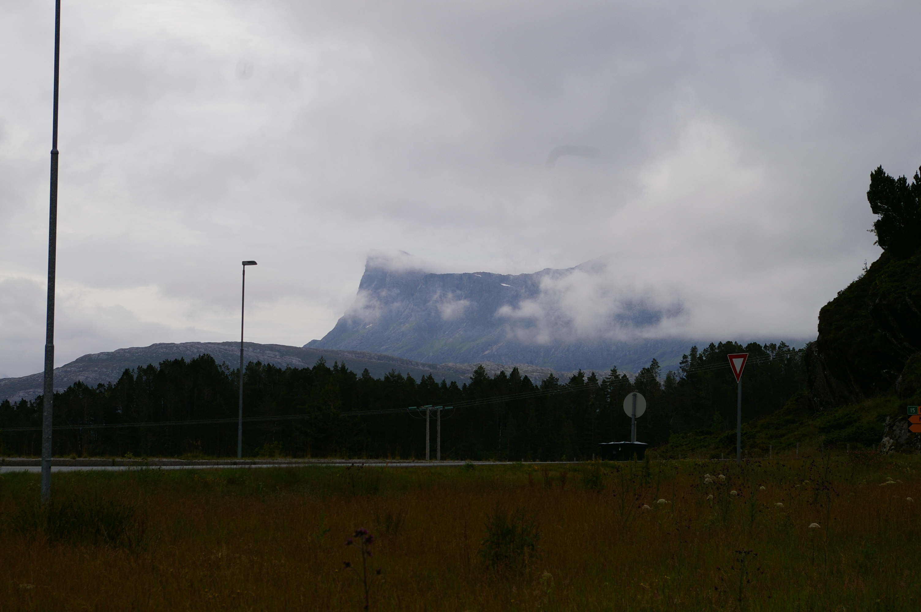 Hornelen seen from Vågsøy, Sogn og Fjordane, Norway